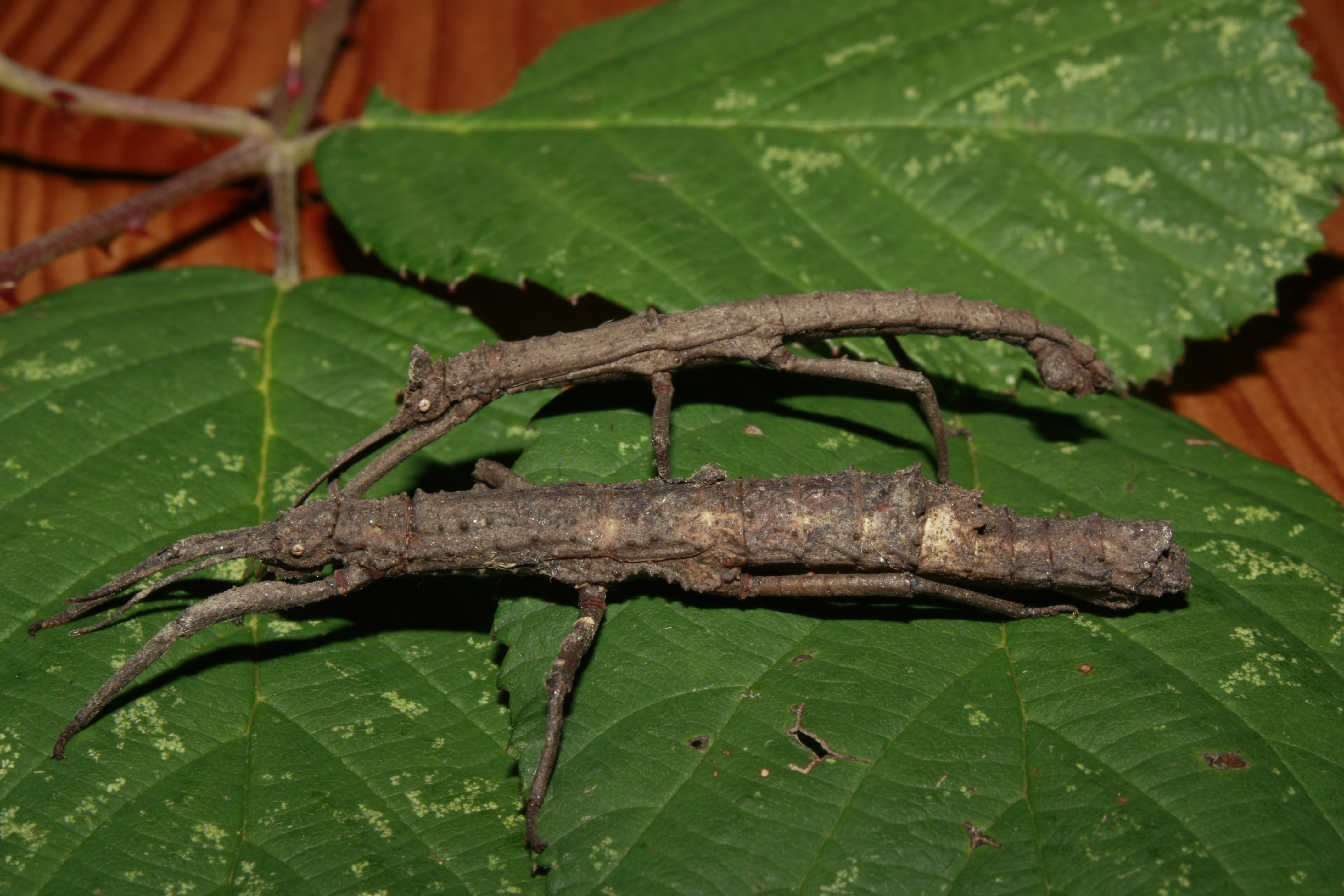 Pair of Orestes sp. from Andaman Island